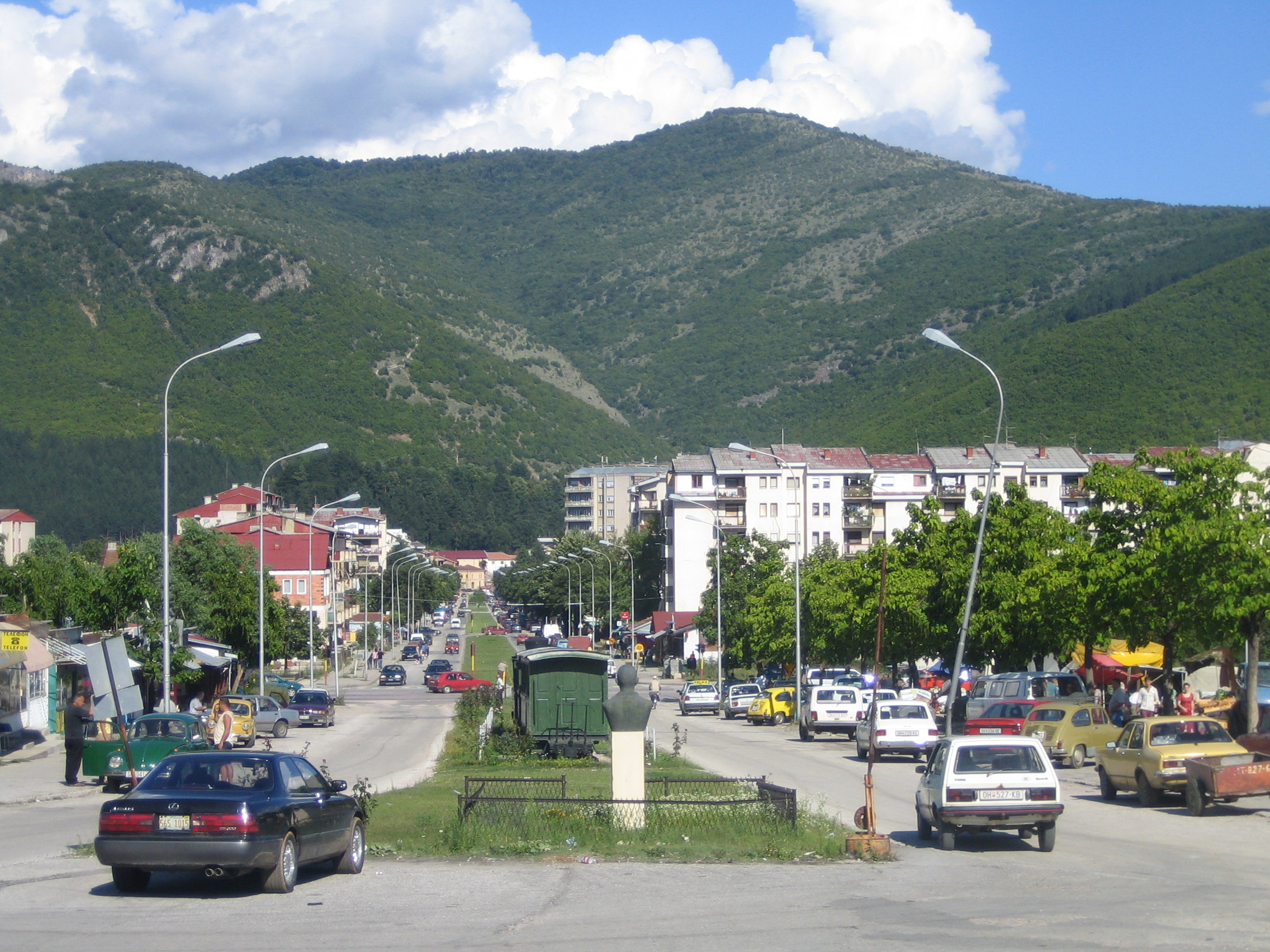 View on Kičevo, Macedonia